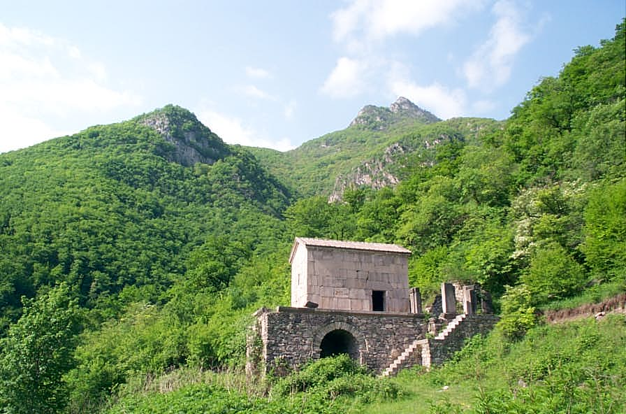 Vahanavank Monastery in Syunik Marz, Southern Armenia 1/9.7.7